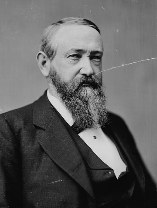 Former Senator Benjamin Harrison of Indiana.